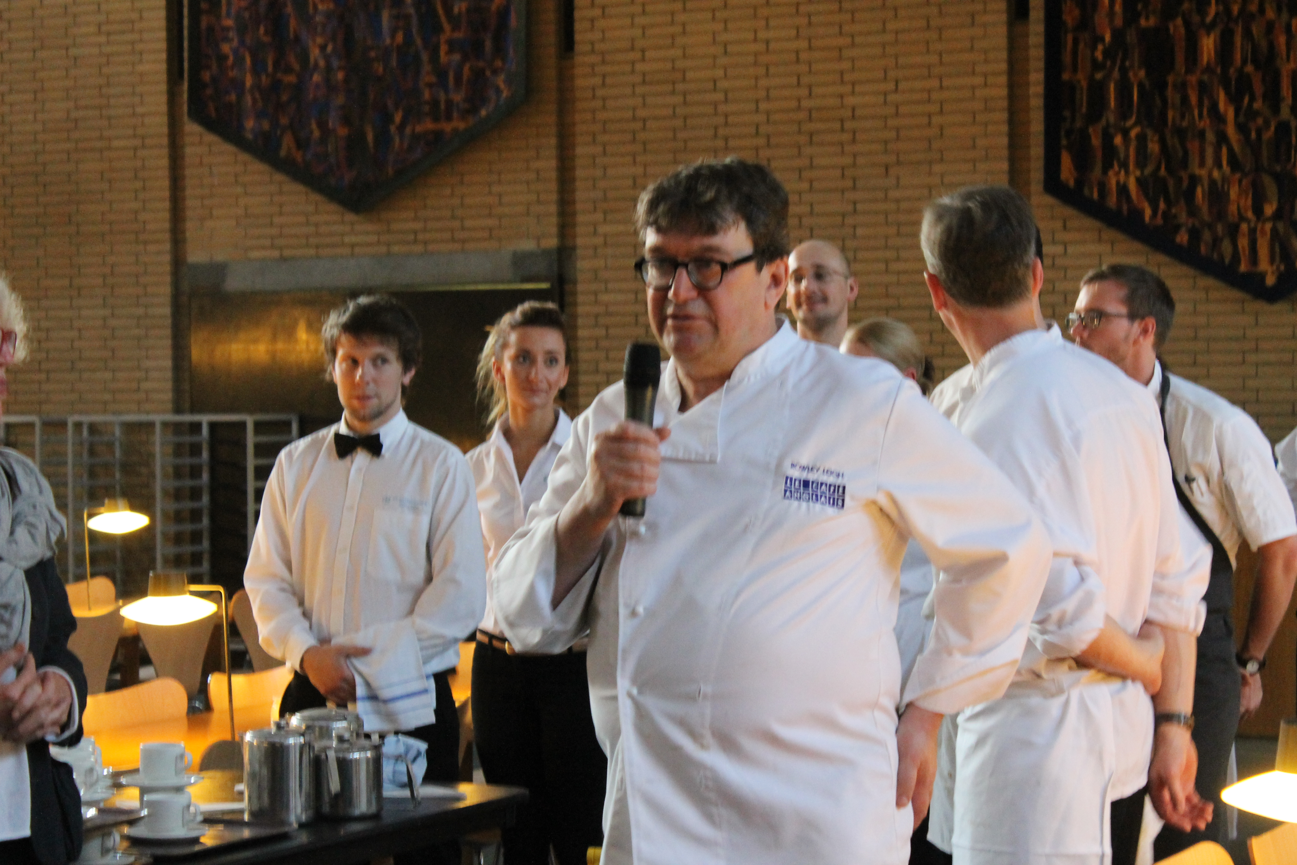 Chef and restauranteur Rowley Leigh at the Oxford Symposium on Food and Cookery, 2012